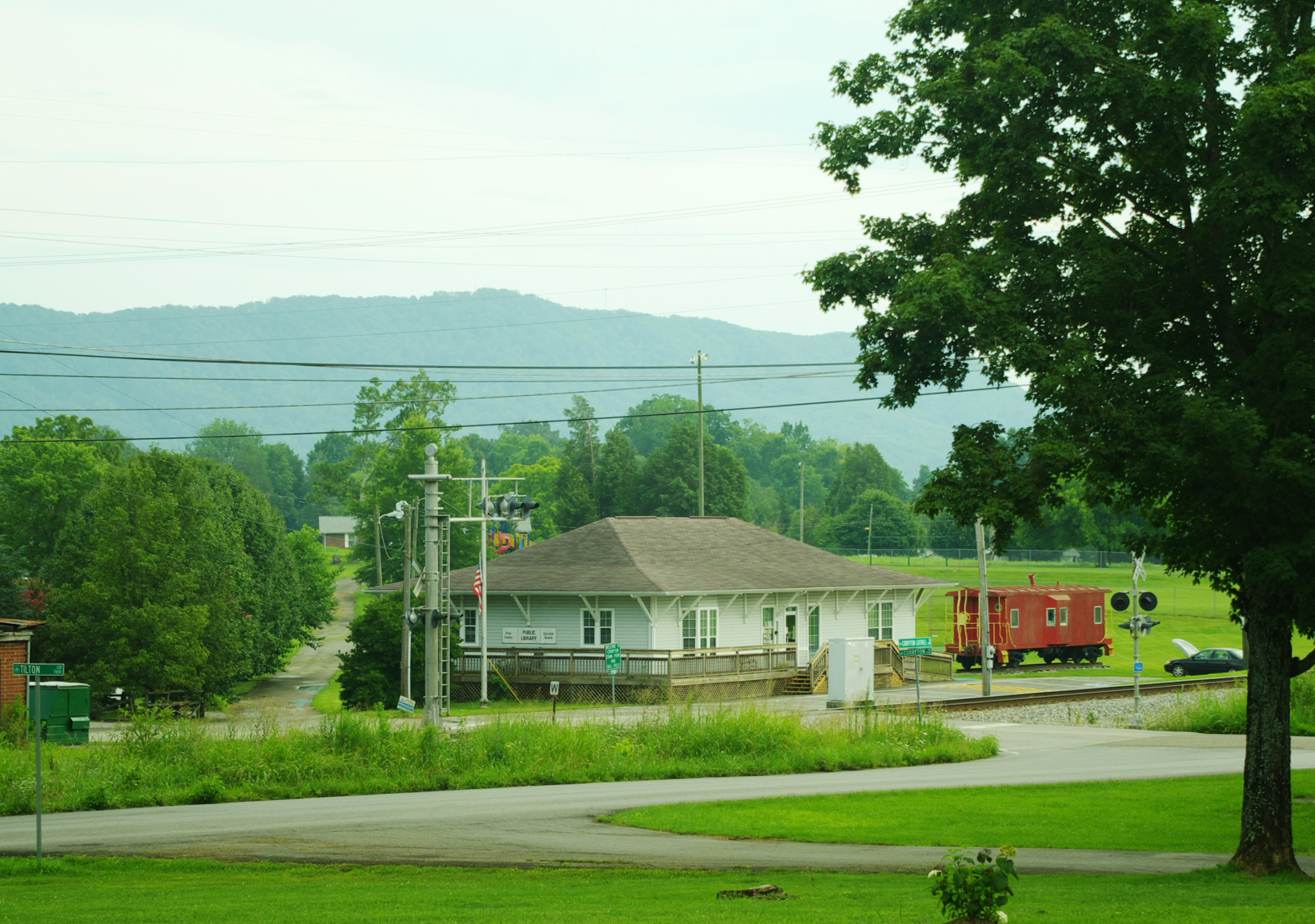 The Corryton Branch of the Knox County Public Library, in the Corryton community of Knox County, Tennessee, United States. The library stands at what was once the location of the Corryton Depot, and is built in a style that resembles an early 20th century train station. House Mountain rises in the distance.